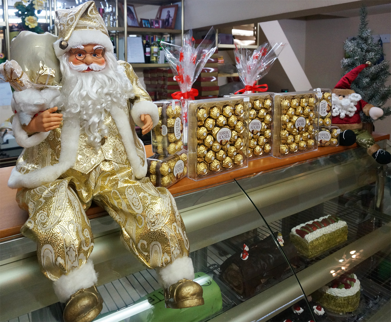 Christmas decorations